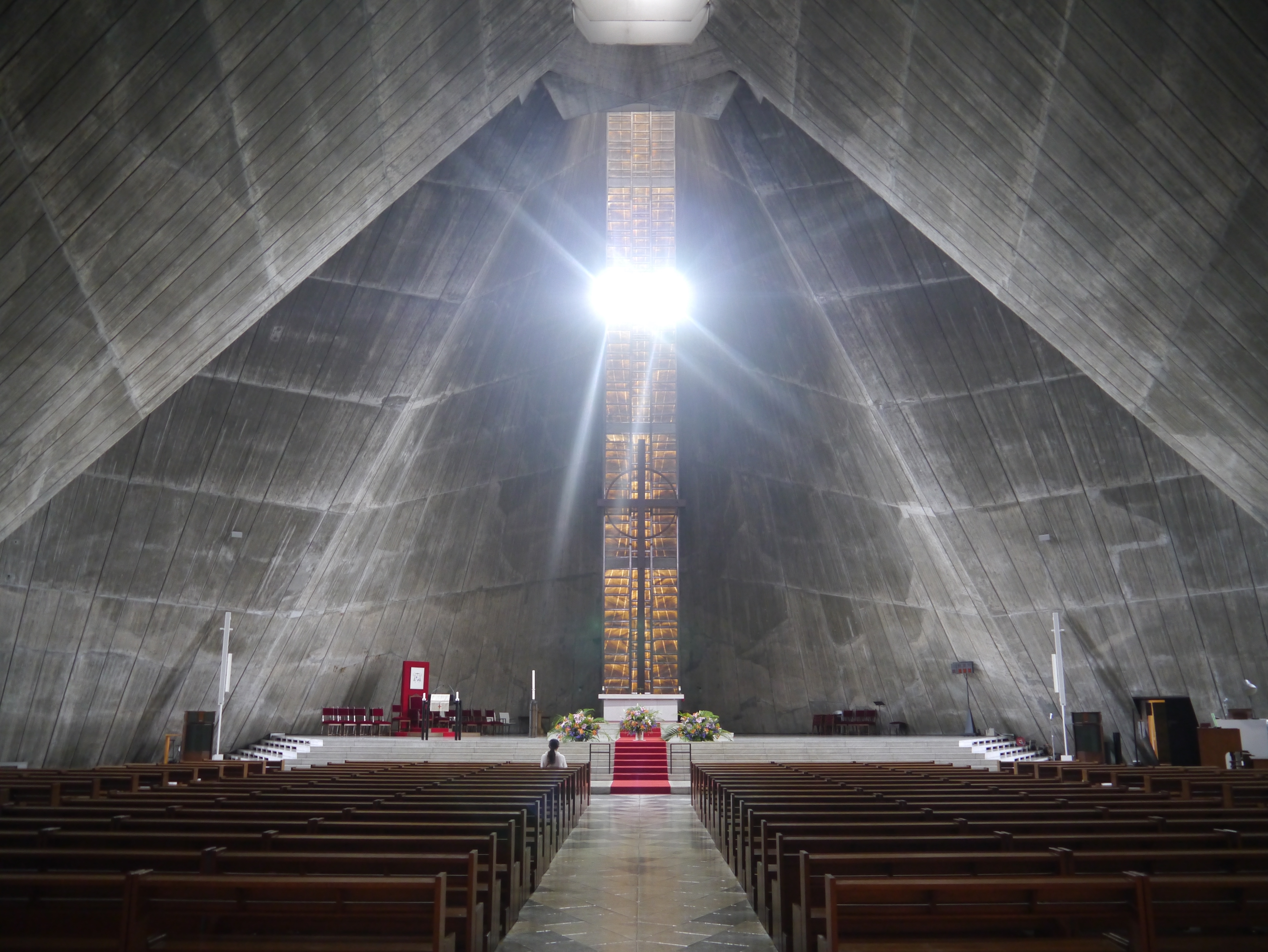 Nave of the Cathedral of St. Mary, Tokyo/Tokyo Prefecture, Japan